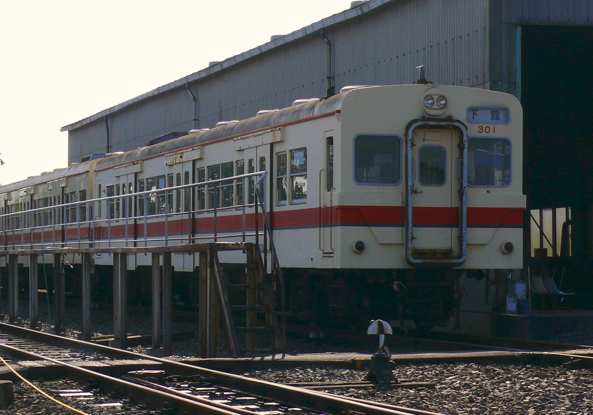 Kanto Railway Kiha301 Diesel railcar.